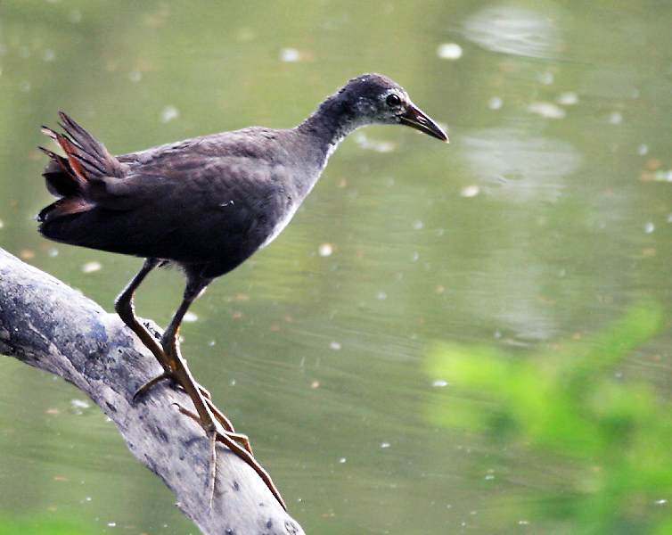 White-breasted Waterhen Amaurornis phoenicurus in Kolkata, West Bengal, India.